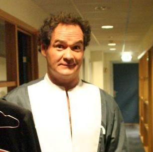 Steffen Tangstad, ex-heavy weight boxer from Norway